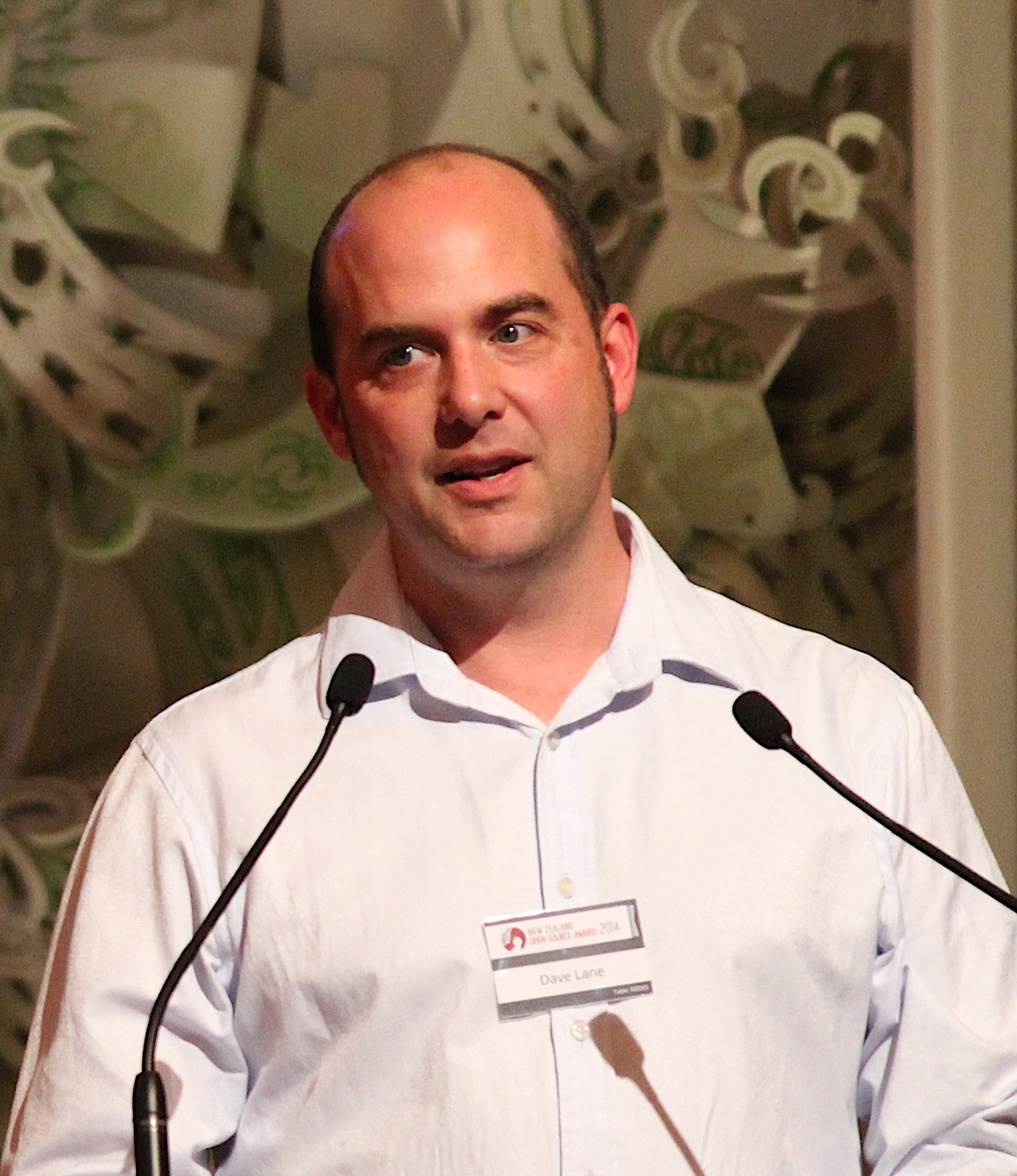 Dave Lane, President of the New Zealand Open Source Society, speaking at the New Zealand Open Source Awards 2014, at Te Papa in Wellington.